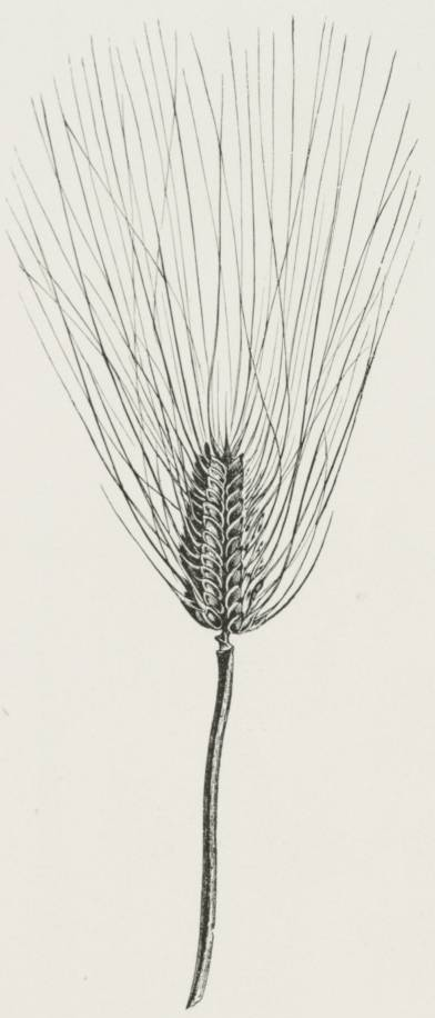 An Egyptian wheat plant (Triticum Sativum).